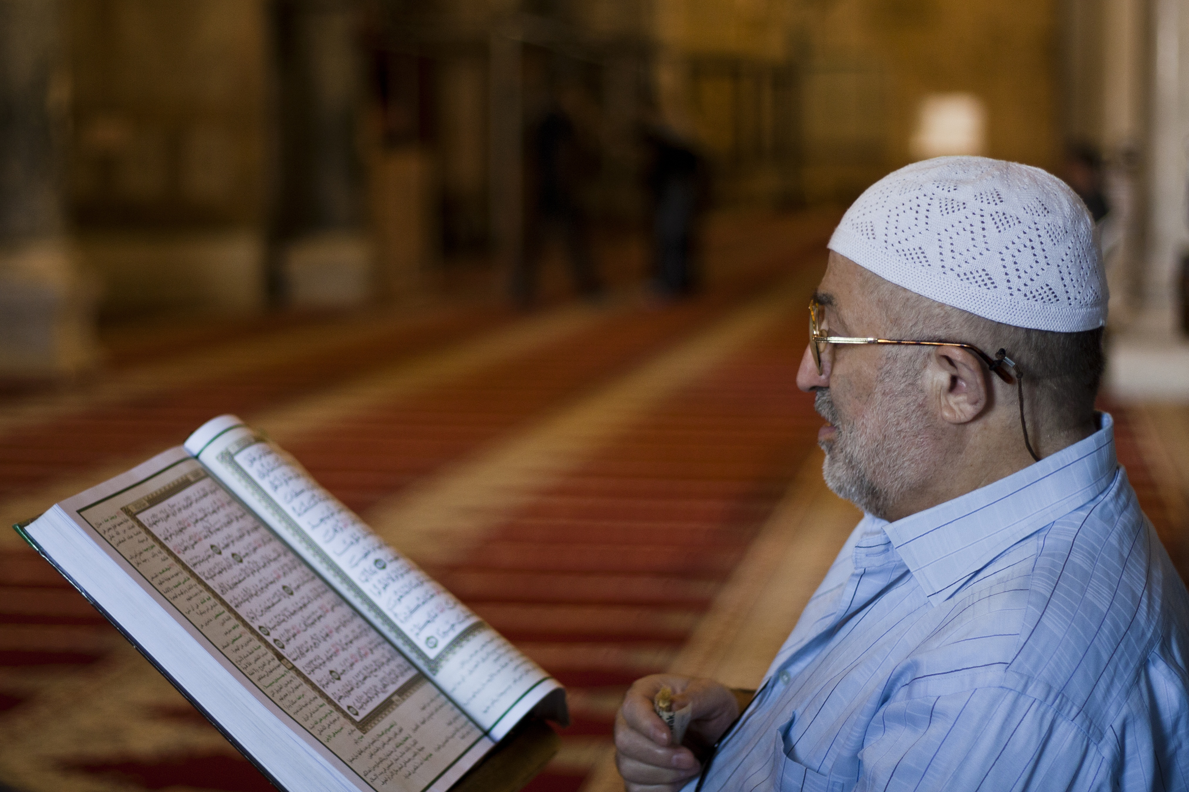 Palestinian Muslim reading The Holy Qur'an inside Al-Aqsa mosque in Jerusalem in 2013, where not many Palestinians were able to visit it due to Israeli blockade. (By/ Mustafa Bader)